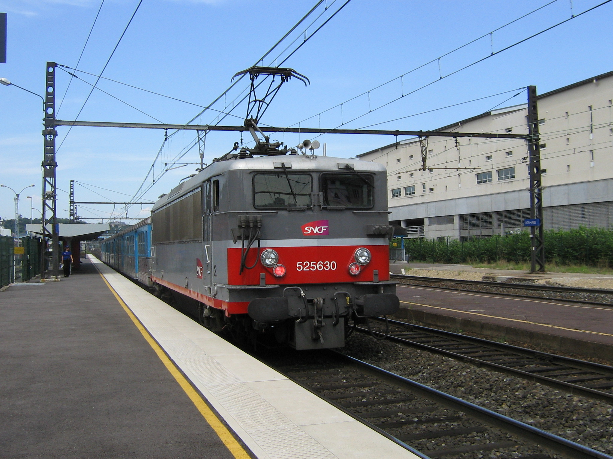 525630 at Lyon Vaise on a push pull service to Maçon. It carries Corail livery.